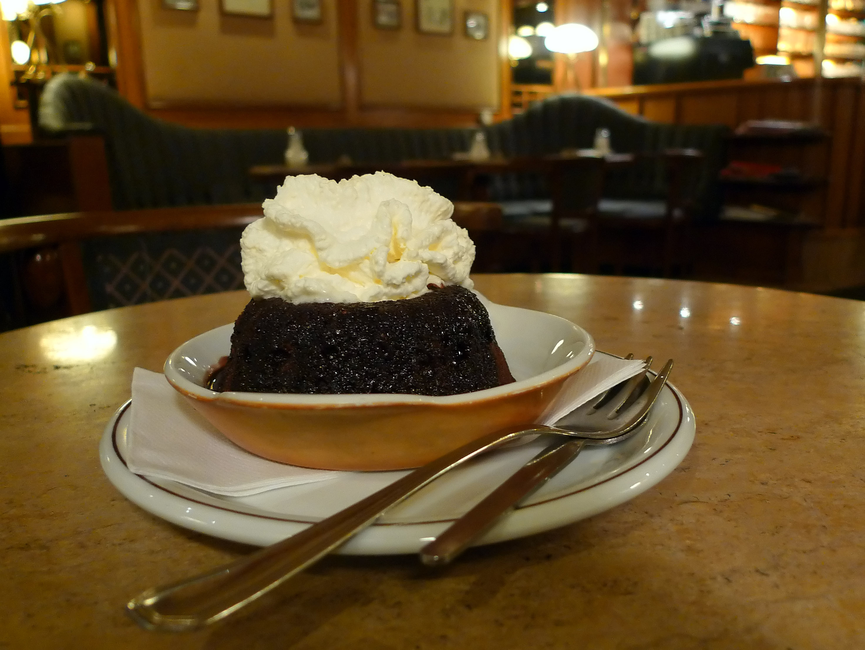 Mohr im Hemd, an Austrian Christmas pudding, as served in a Viennese coffee house.